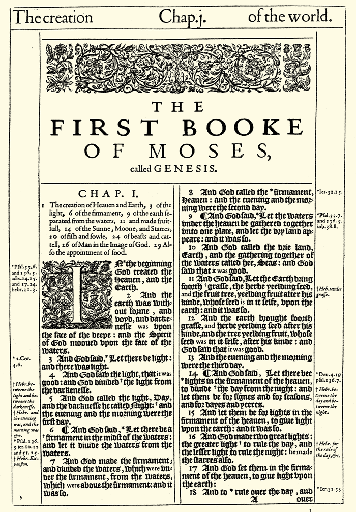 The first page of the Book of Genesis from the original 1611 printing of the King James Bible.